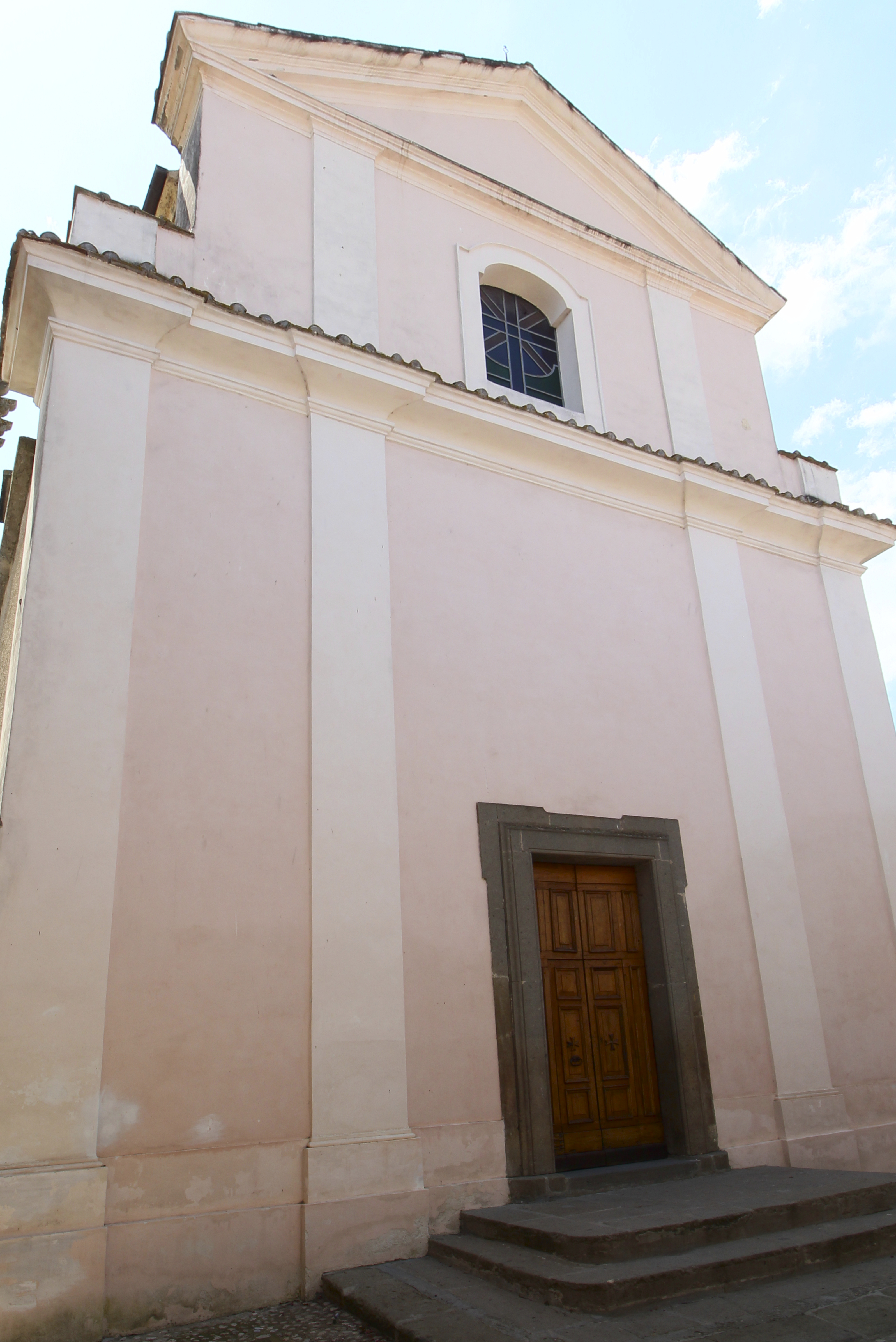 Church Santi Vincenzo e Liberato, Mugnano in Teverina, hamlet of Bomarzo, Province of Viterbo, Lazio, Italy